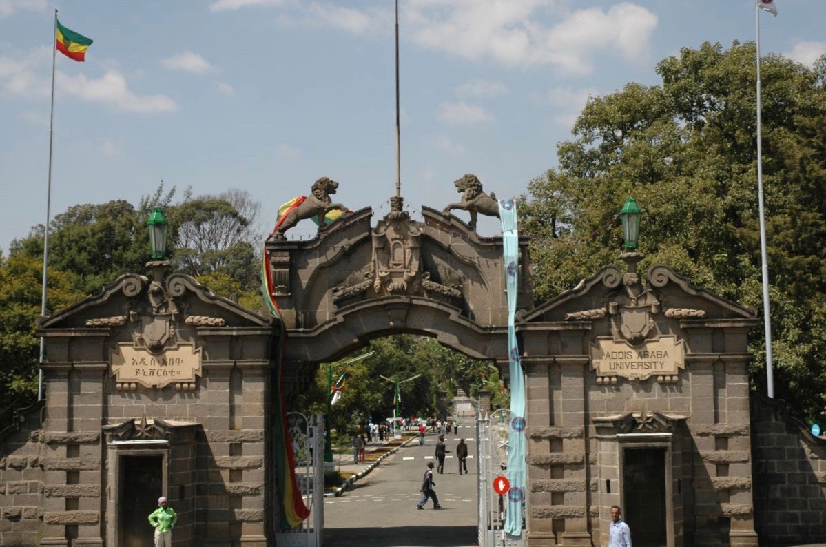 Addis Abeba University, Ethiopia